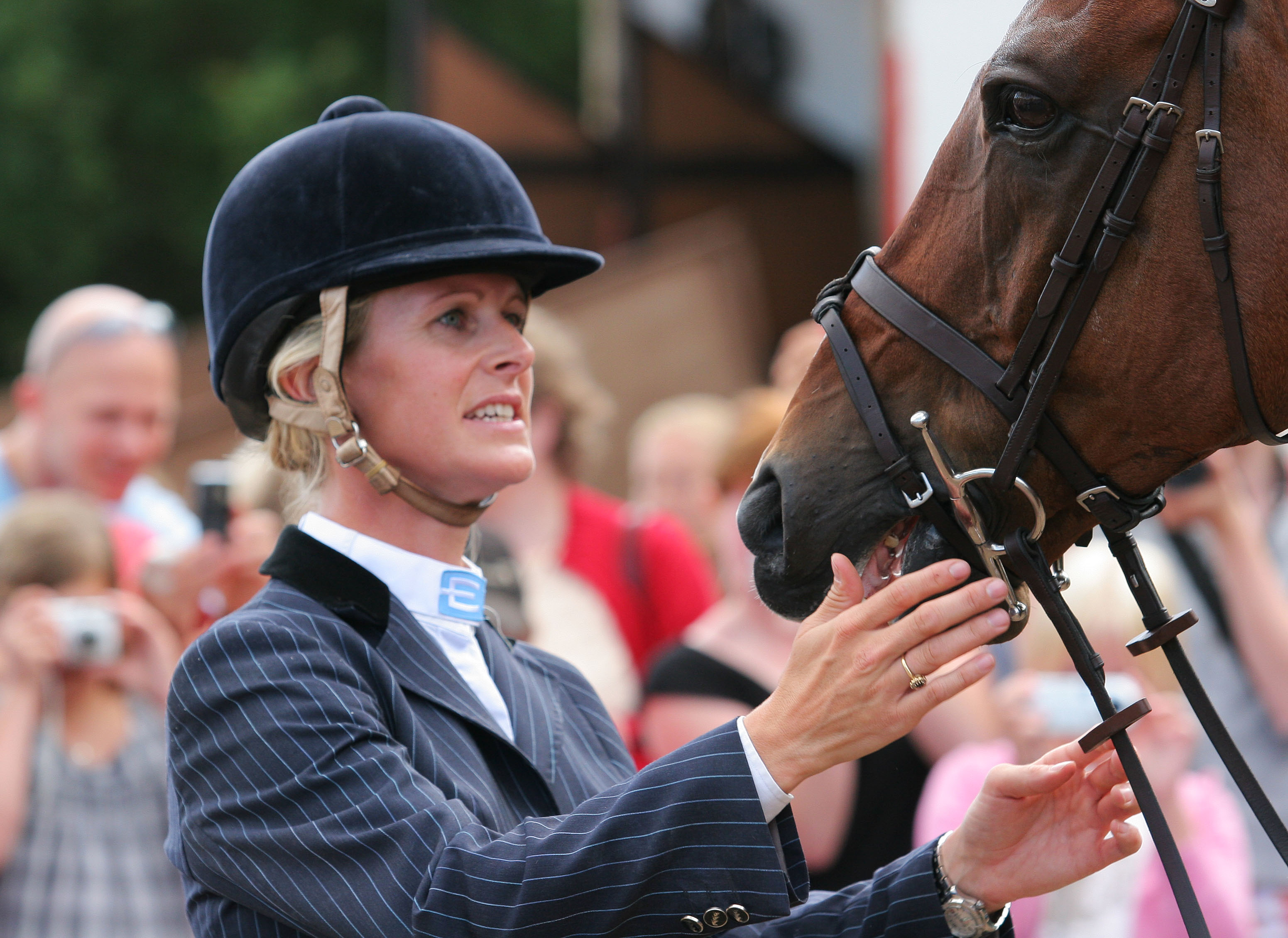 Piia Pantsu and Karuso